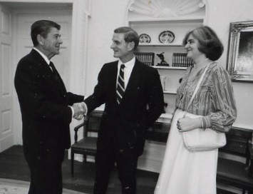 Ronald Reagan in Oval Office in 1982 with Nicholas Platt, departing ambassador to Zambia and wife Sheila